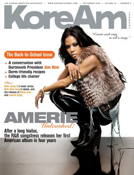 Magazine cover of KoreAm from September 2009 featuring R&B artist Amerie